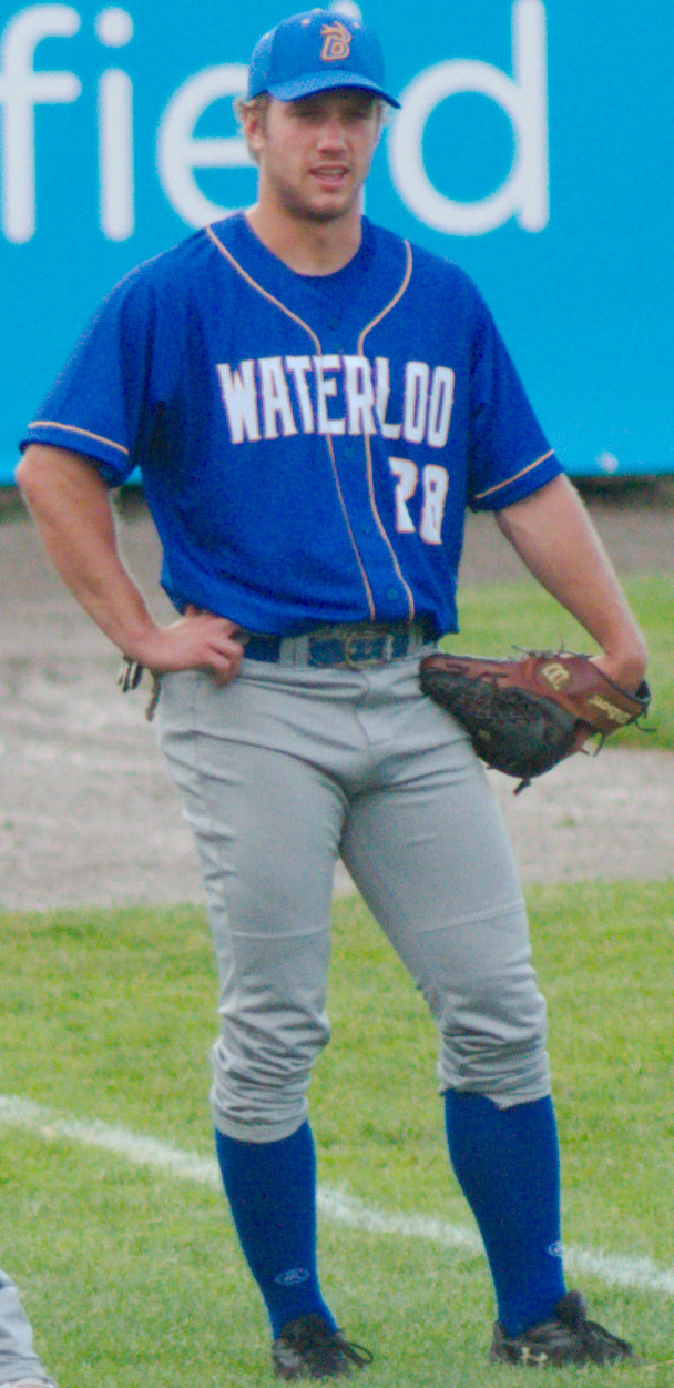 Waterloo Bucks players prepare for a 2014 game in Battle Creek, Michigan